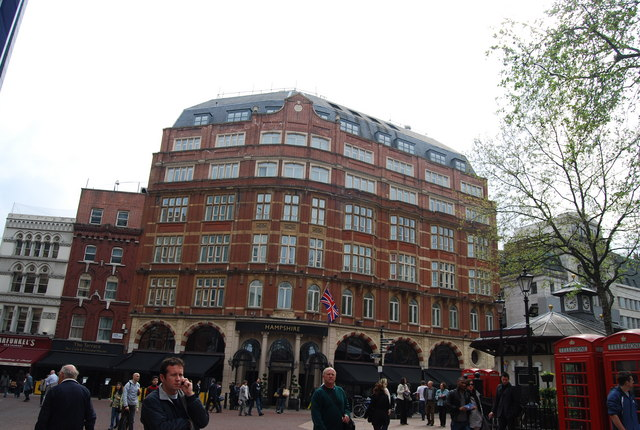 Hampshire Hotel, Leicester Square